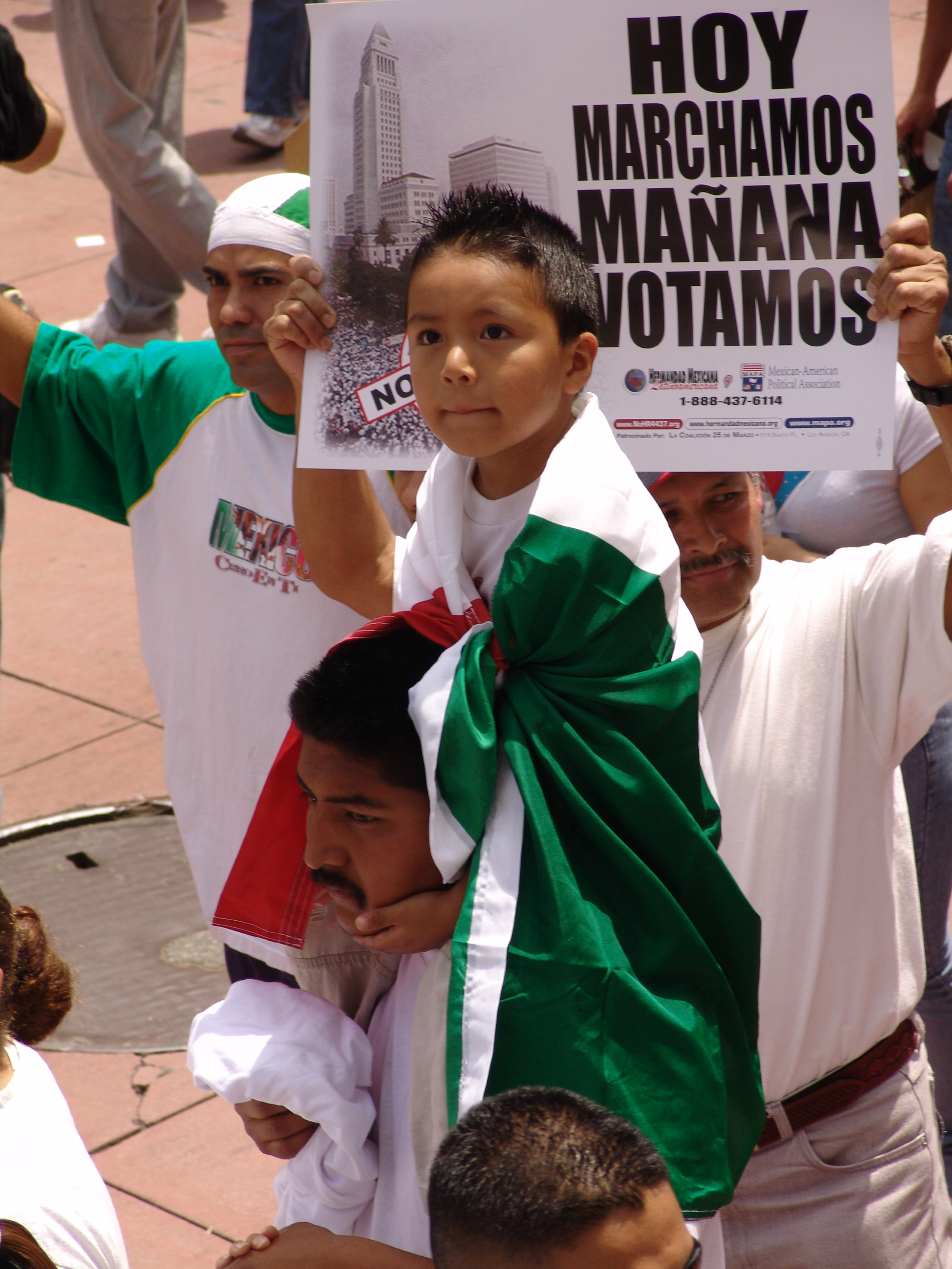 Immigrant rights march for amnesty in downtown Los Angeles, California on May Day, 2006. Poster says, "Today we march, tomorrow we vote."